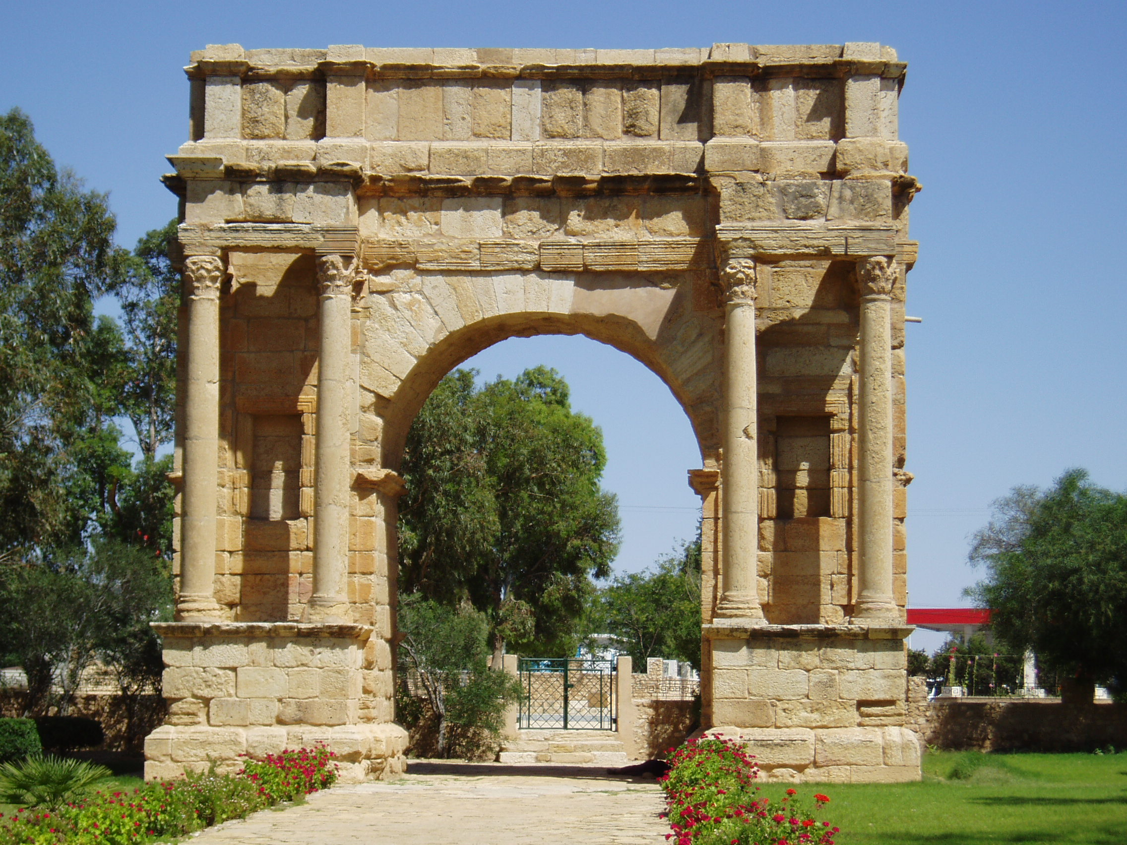 Diocletian's Arch in Sbeitla (Sufetula), Tunisia